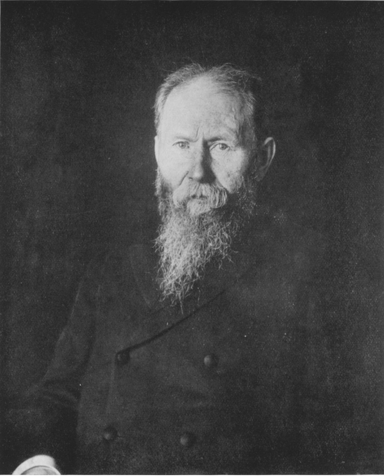 Photographic portrait of Jeremiah Curtin, American collector of Irish folktales